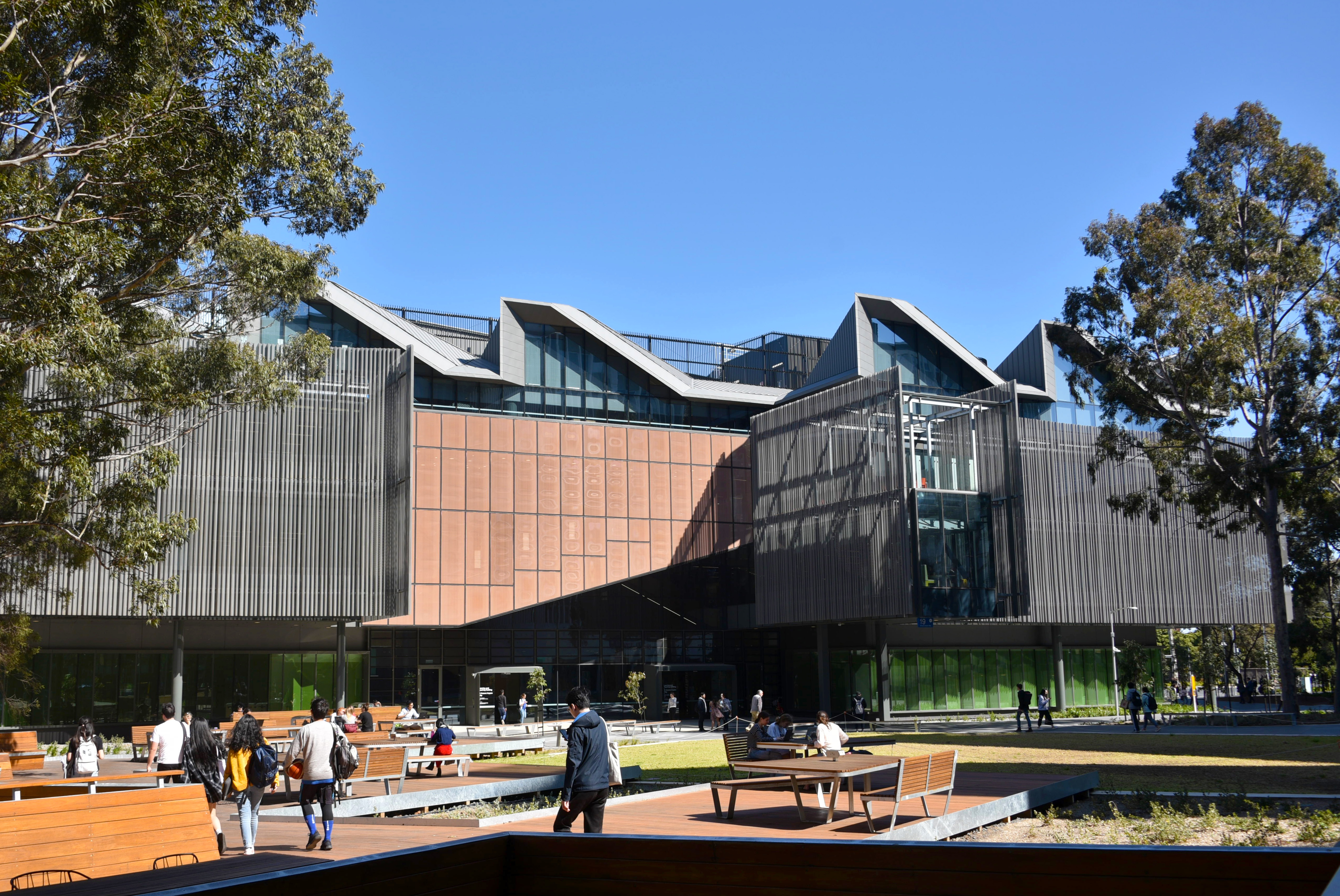 Monash University Clayton. Architect:John Wardle